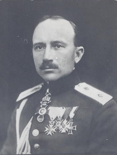 Bulgarian general Aleksandar Kisyov, 1931-1932